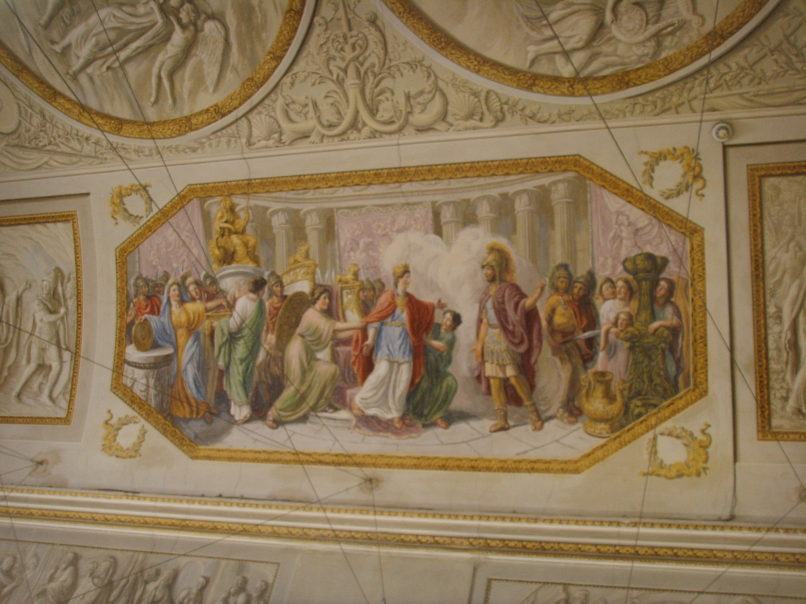 Palazzo_di_San_Clemente,_ library frescoed rooms. See filename for room ref. number Frescos of XVIII century by unknown author(s) in Florence